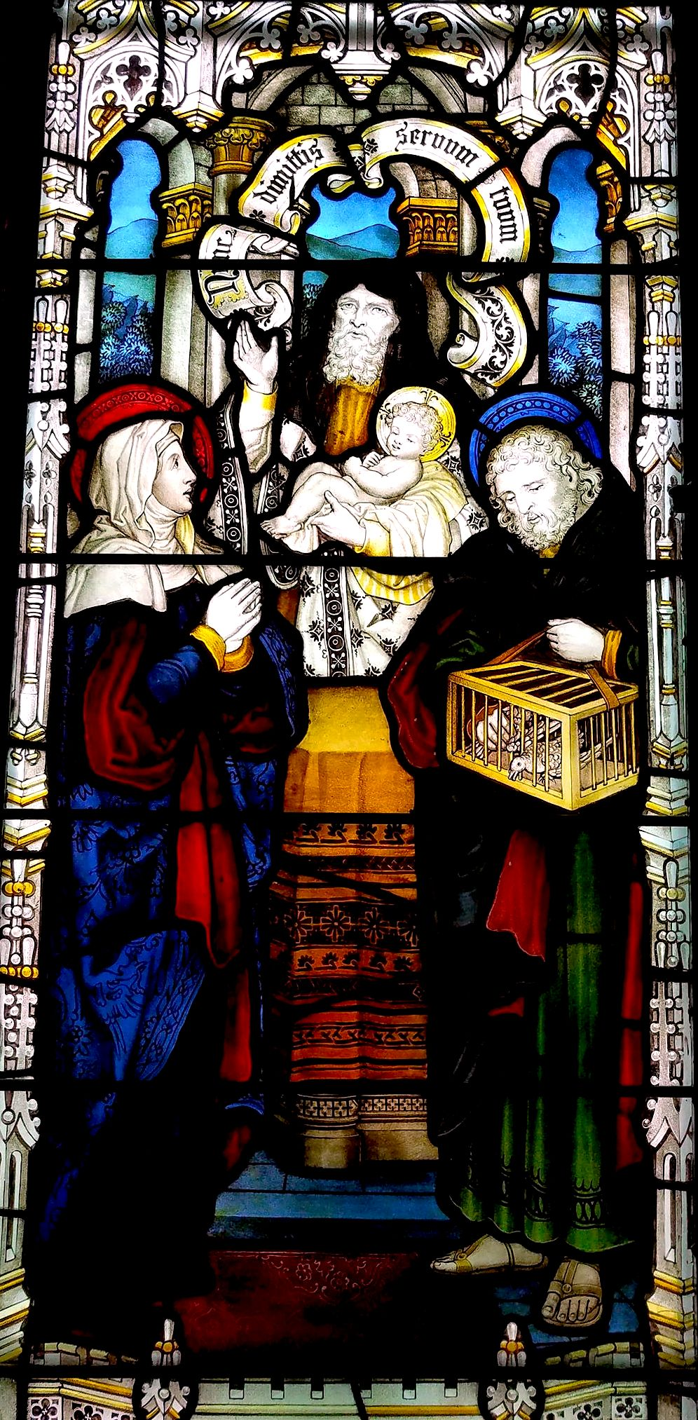 Presentation of Jesus in the Temple, stained glass window